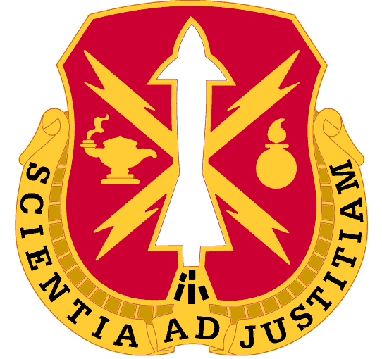 Distinctive unit insignia of the United States Army Ordnance Missile and Munitions Center and School